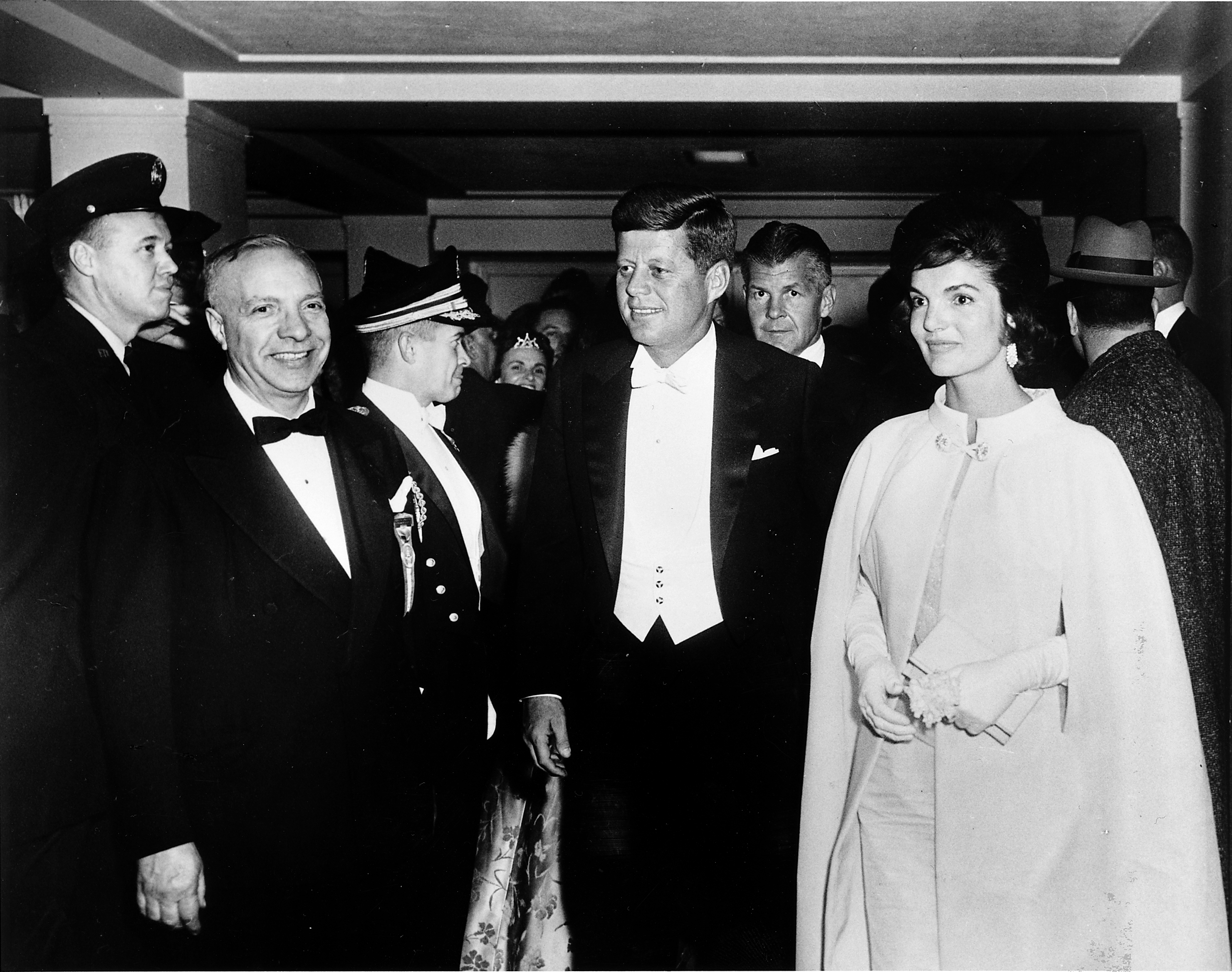 President and Mrs. Kennedy arrive at the National Guard Armory in Washington for the Inaugural Ball.